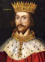 Portrait of King Henry II of England (1133-1189). The UK National Portrait Gallery, Montacute House, Somerset, UK.